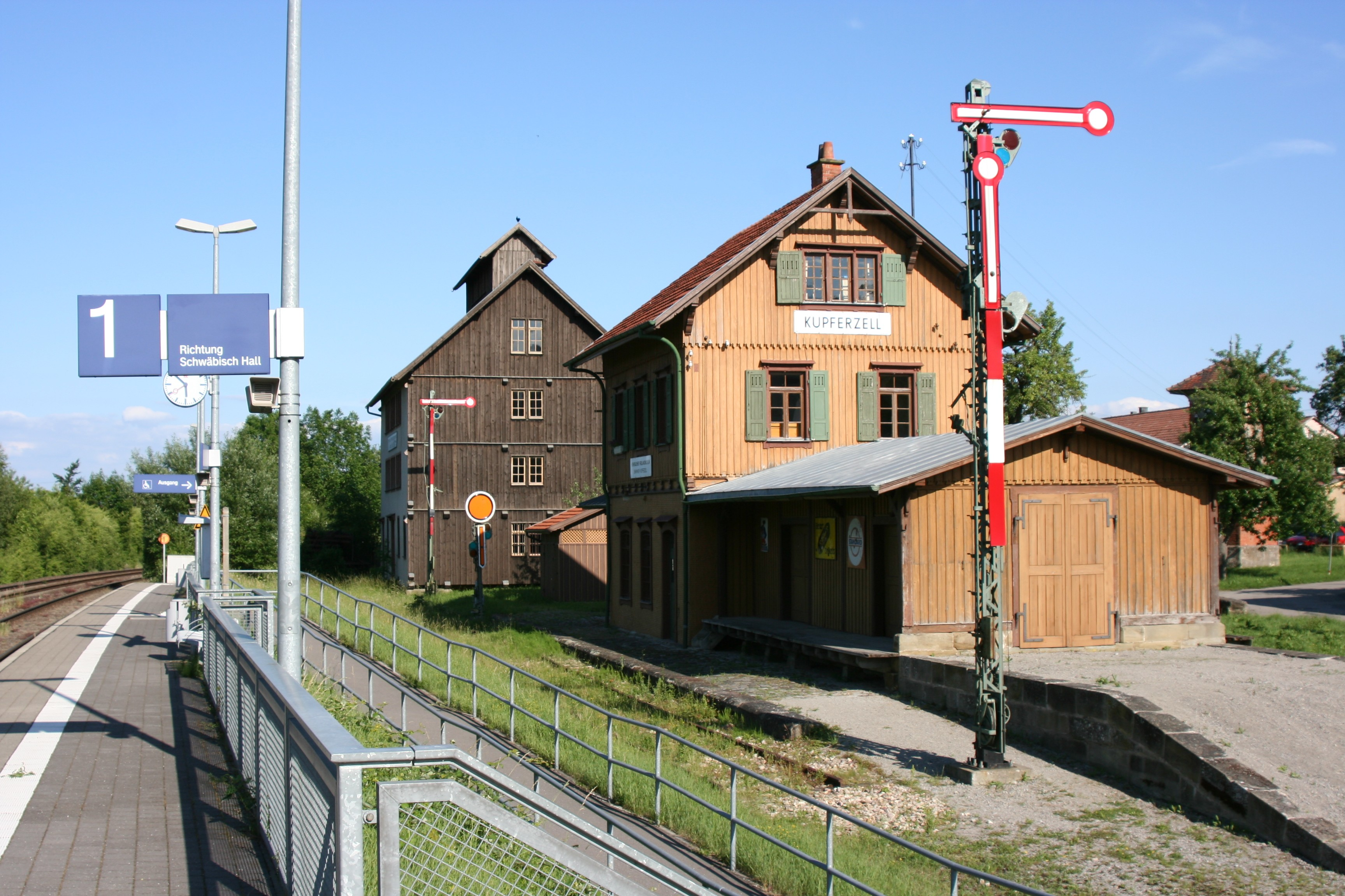 The old train station of Kupferzell in the Open Air Museum Wackershofen